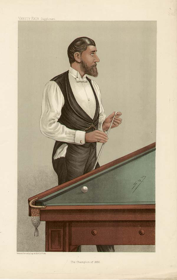 Men of the Day No.329: Caricature of John Roberts, Jr.. Caption reads: "The champion Roberts"